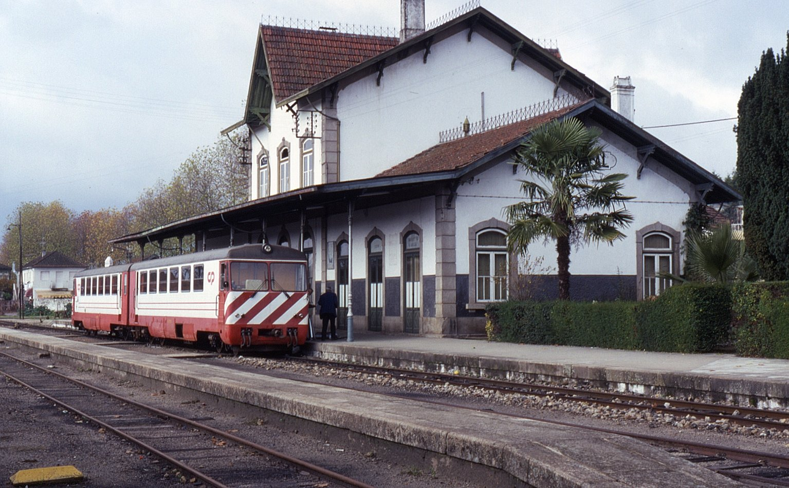 Metre gauge line from Régua to Vila Real. On 7 November 1993 units 9708+9709 are ready to depart on train 6104, 13:30 Vila Real to Régua. These units were bought from Yugoslavian Railways following the closure of the last narrow gauge (760mm) lines in that country and re-gauged to metre.